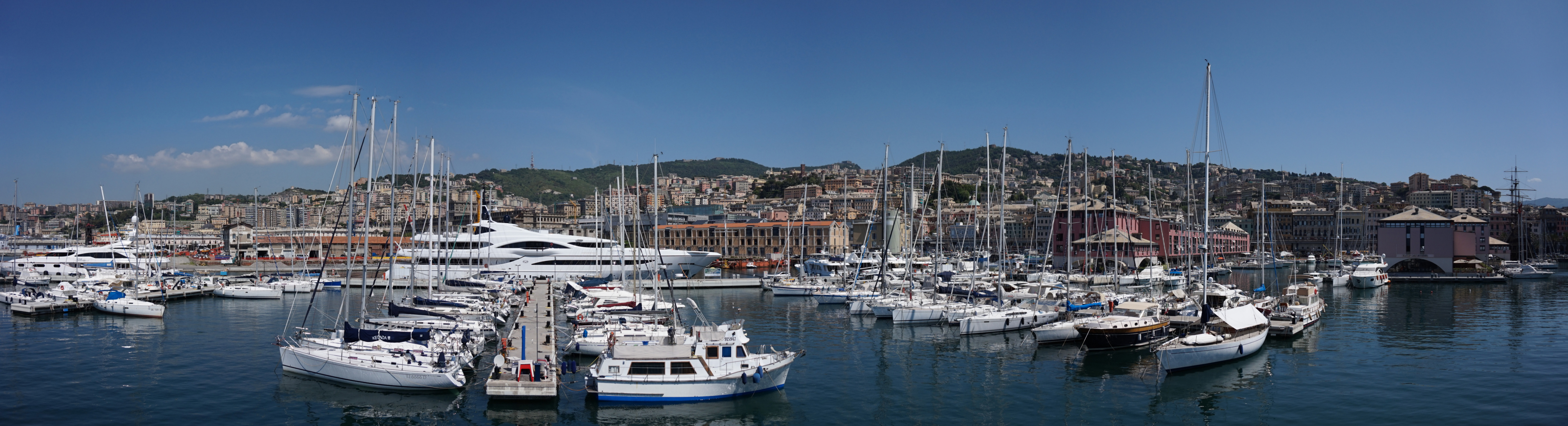 Port in Genoa, Italy. This photograph was taken with a Sony Alpha a5000.